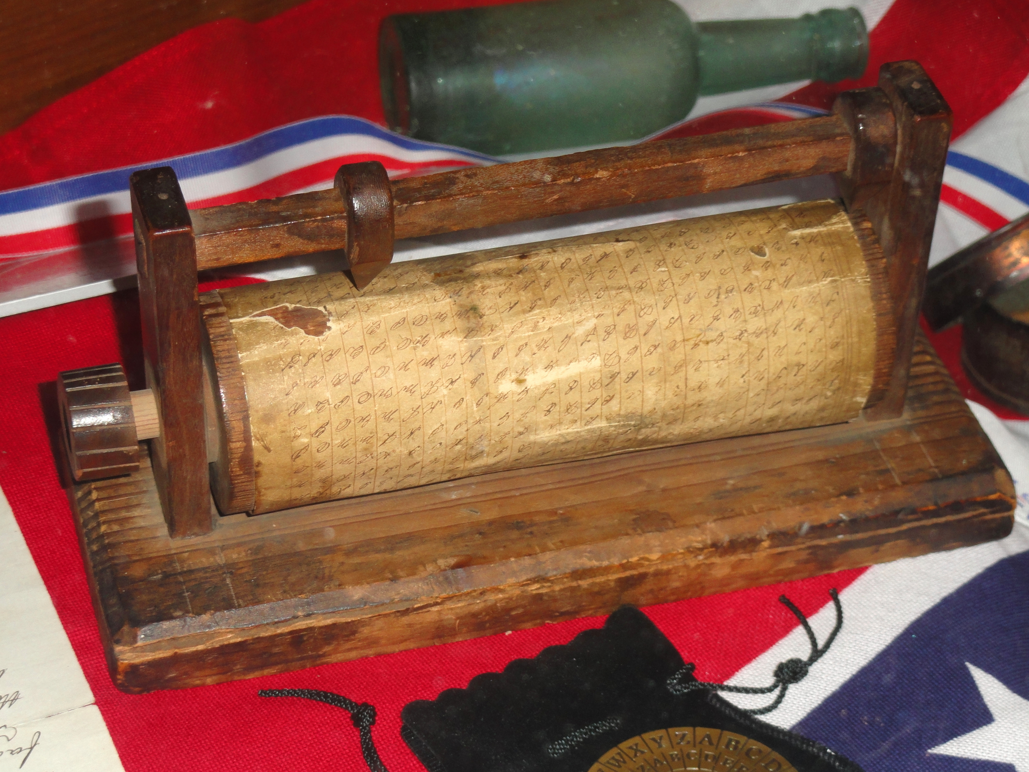 Exhibit in the National Cryptologic Museum, Fort Meade, Maryland, USA. All items in this museum are unclassified; items created by the United States Government are not subject to copyright restrictions.